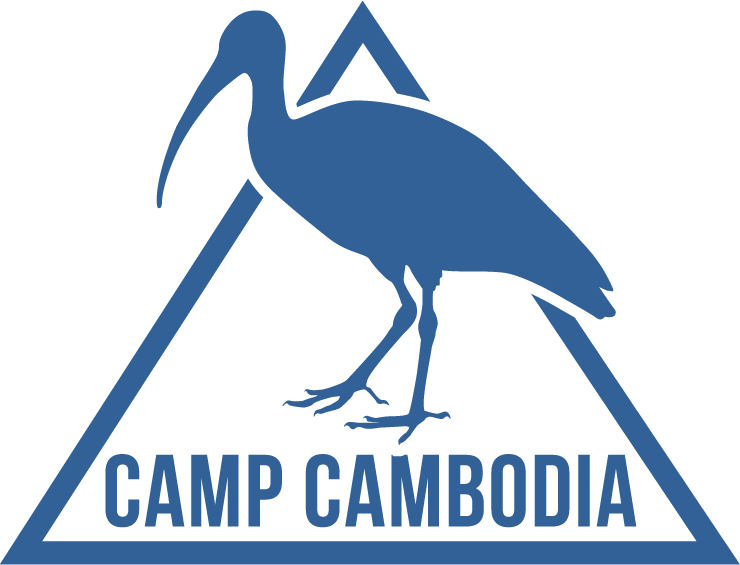 Logo for Camp Cambodia, a subsidiary of Camps International.